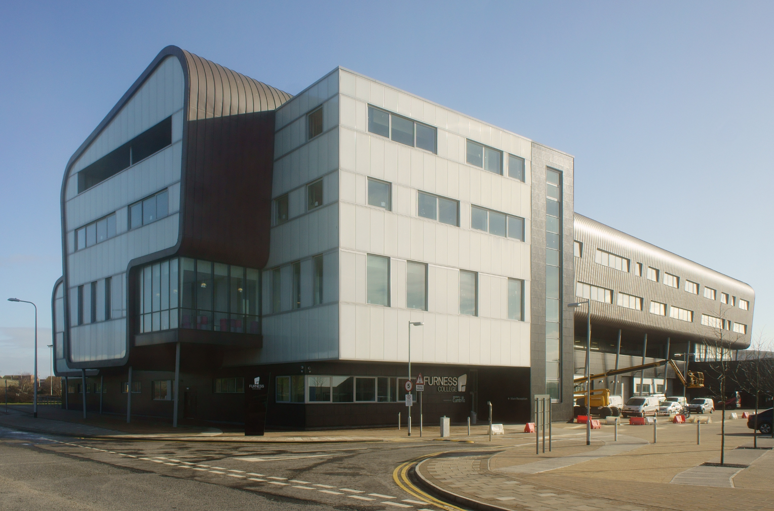 Furness College, Barrow-in-Furness, England